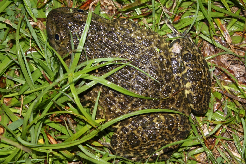 Taken at Lions Nature Education Centre.